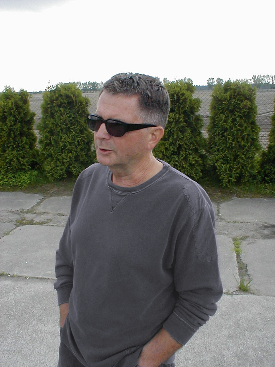 Aleksander Wolszczan, Piwnice Observatory (Toruń), Poland